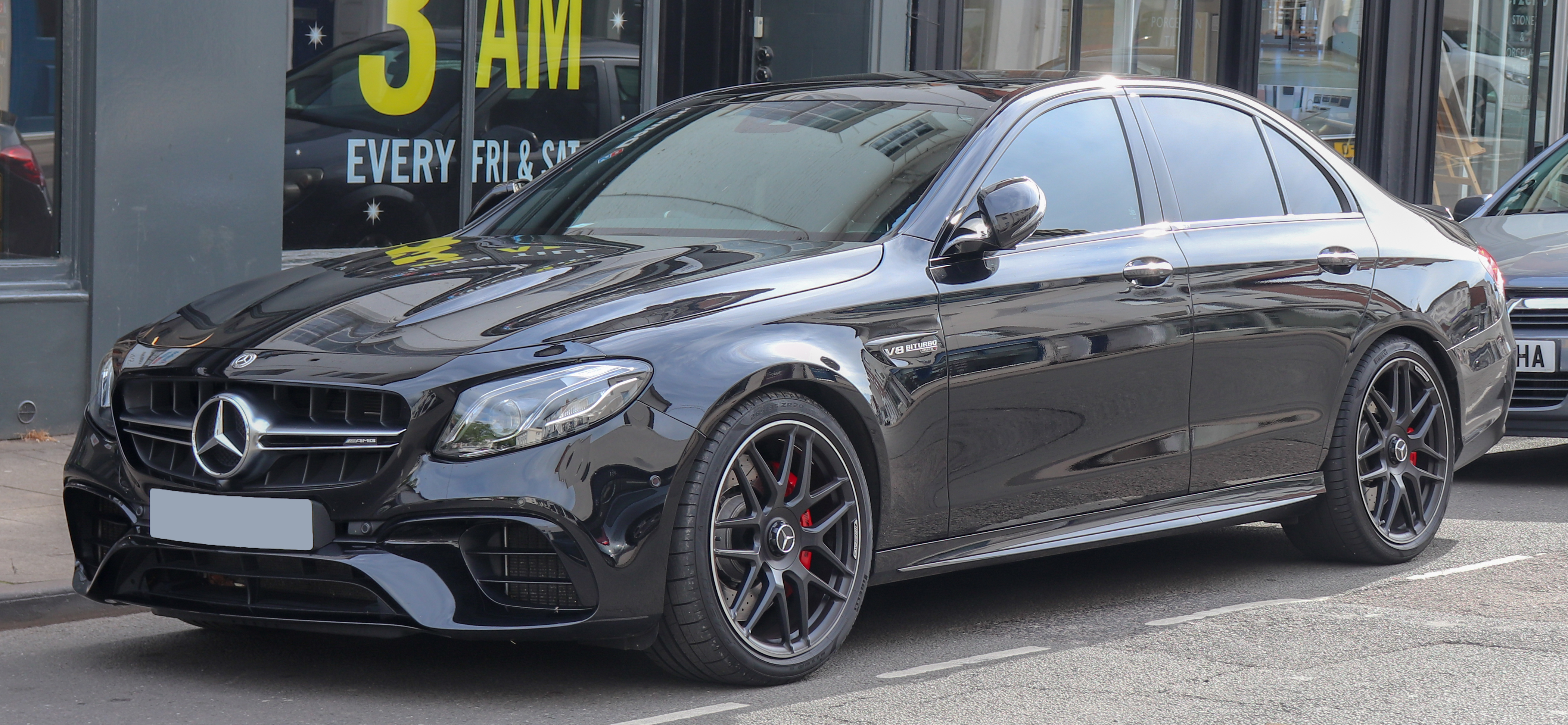 2018 Mercedes-AMG E 63 S Premium 4MATIC 4.0 Front Taken in Leamington Spa